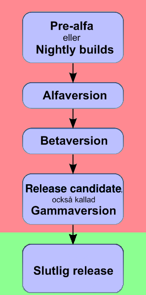 Alfa, Beta, Release candidate - A software's production in Swedish